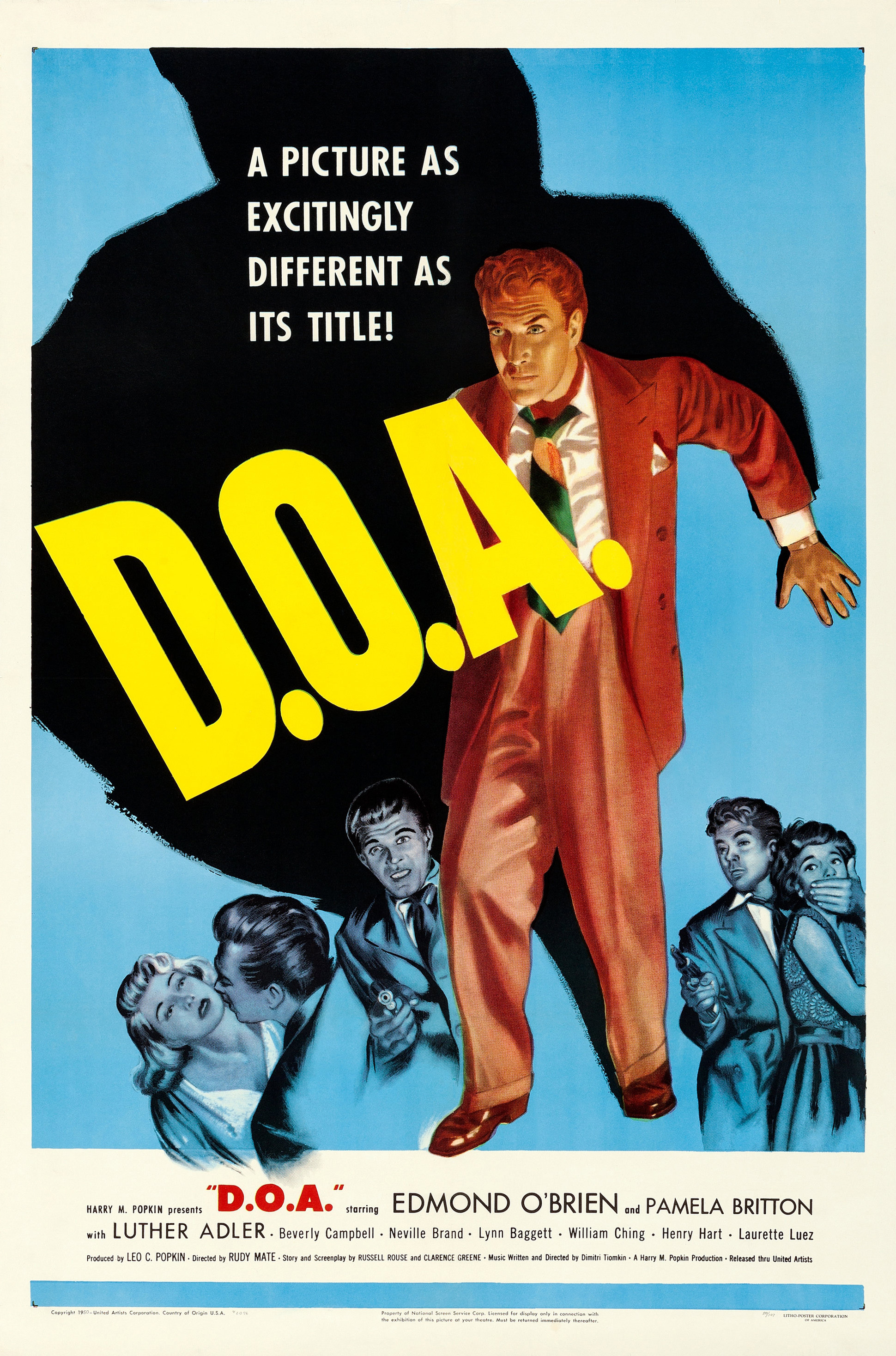 Theatrical release poster for the 1949 film D.O.A.